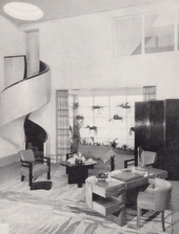 Guillemard Marcel, the Hall, Salon d'Automne, 1927